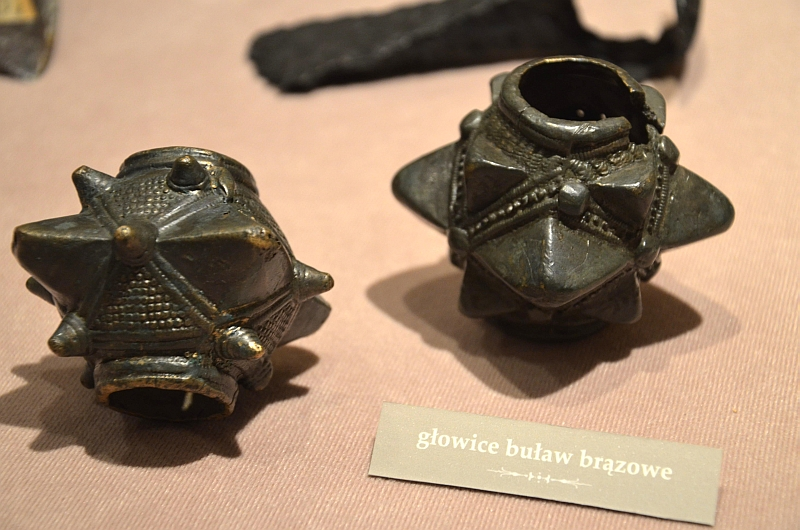 Streitkolbenkopf aus Bronze mit kleinen pyramidalen Spitzenaus